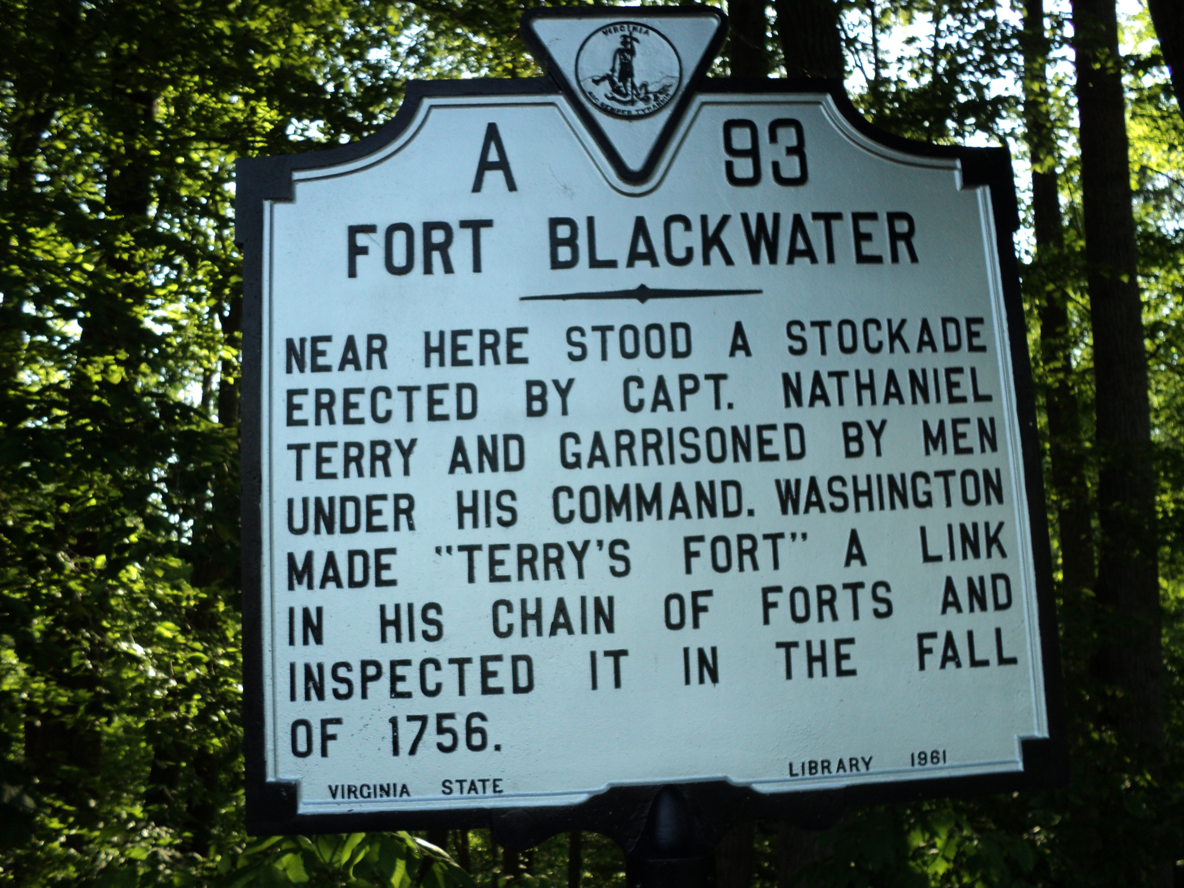 Virginia state historic marker for Fort Blackwater, a stockade fort erected by Capt. Nathaniel Terry and garrisoned by men under his command. George Washington made 'Terry's Fort" a link in his chain of frontier forts and personally inspected it in the fall of 1756.